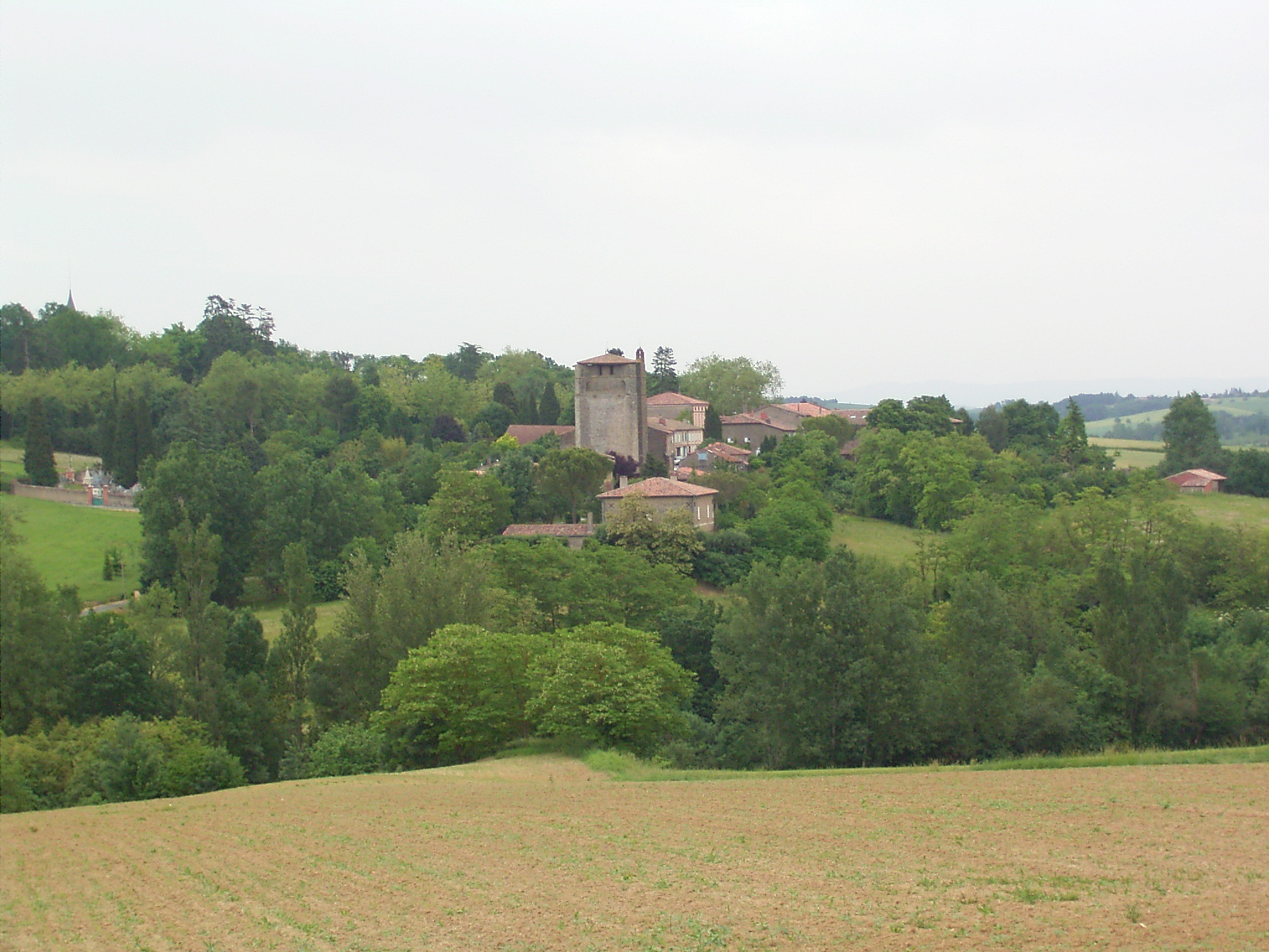 Village of Belcastel, Tarn, France